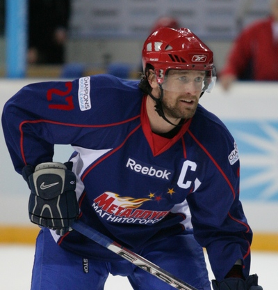 Vitaly Atyushov